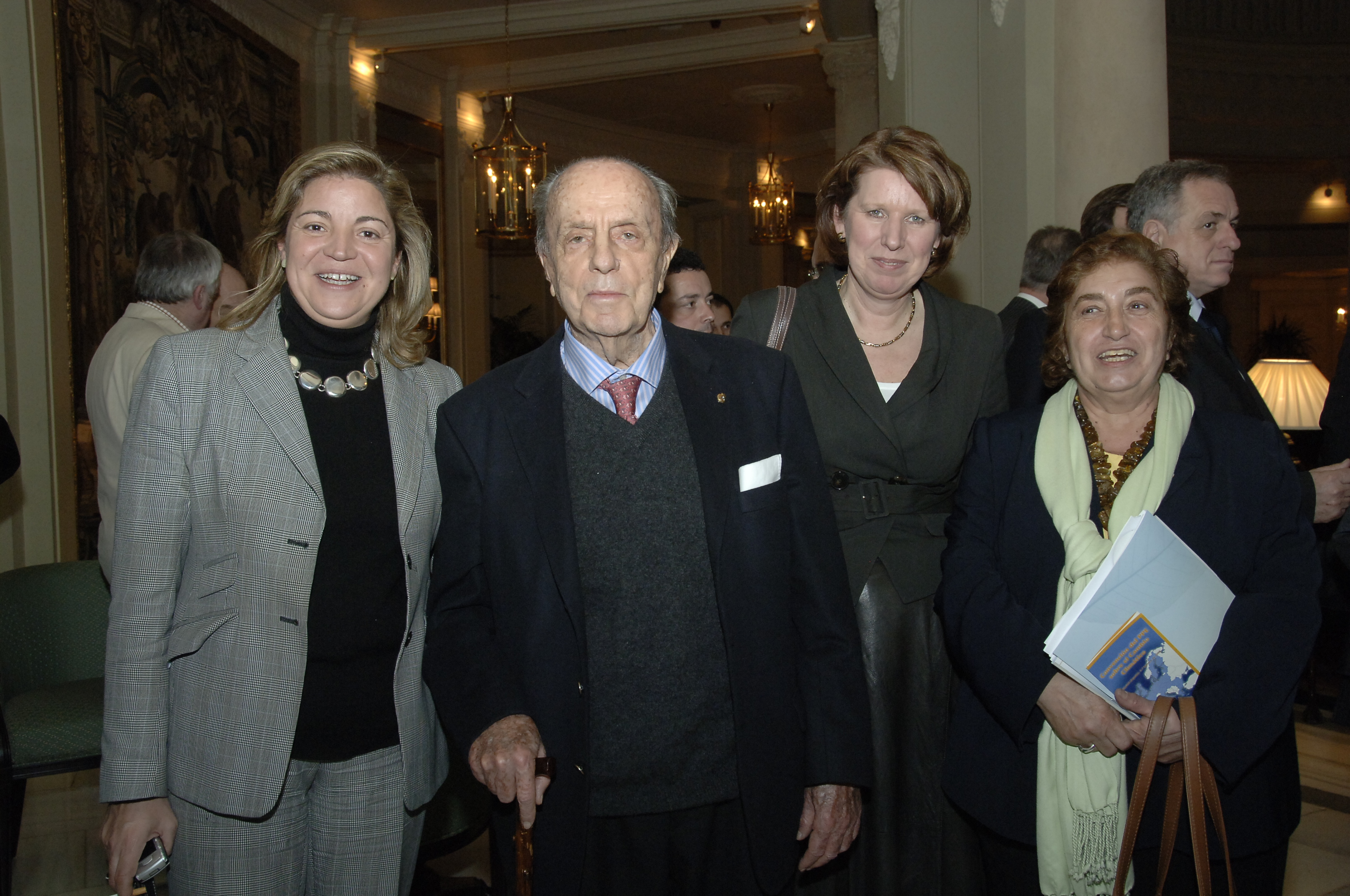 EPP CONVENTION ON CLIMATE CHANGE IN MADRID (6-7 FEBRUARY 2008)